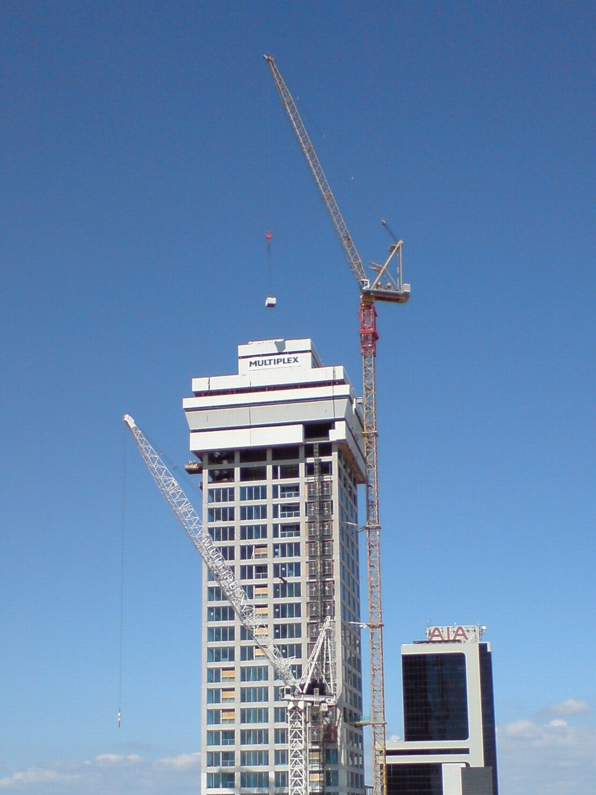 The Sentinel in Takapuna, North Shore City, New Zealand nearing completion. Photographed from the north from the roof of Westfield Shore City.